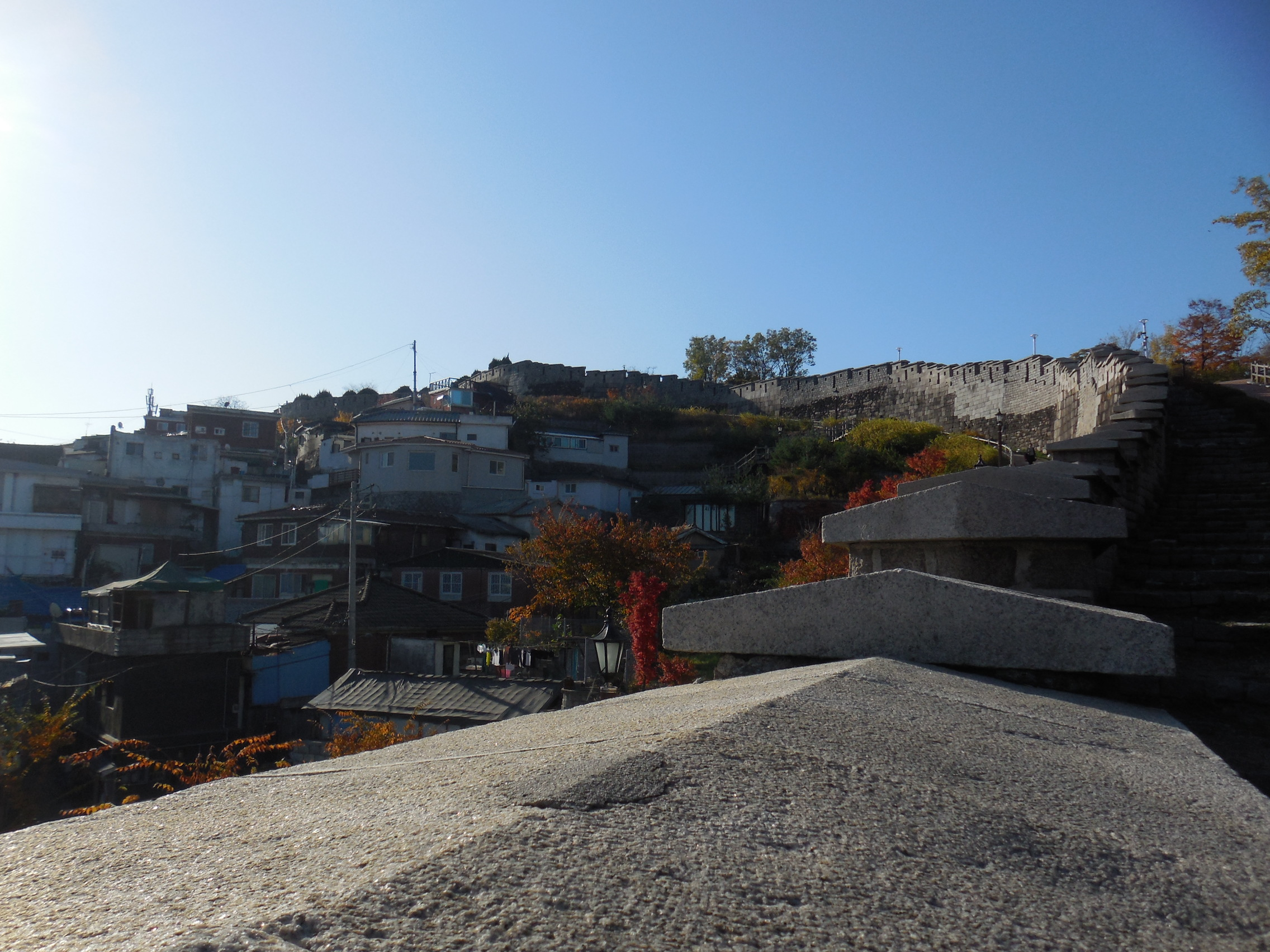 Fortress Wall of Seoul, in Naksan.